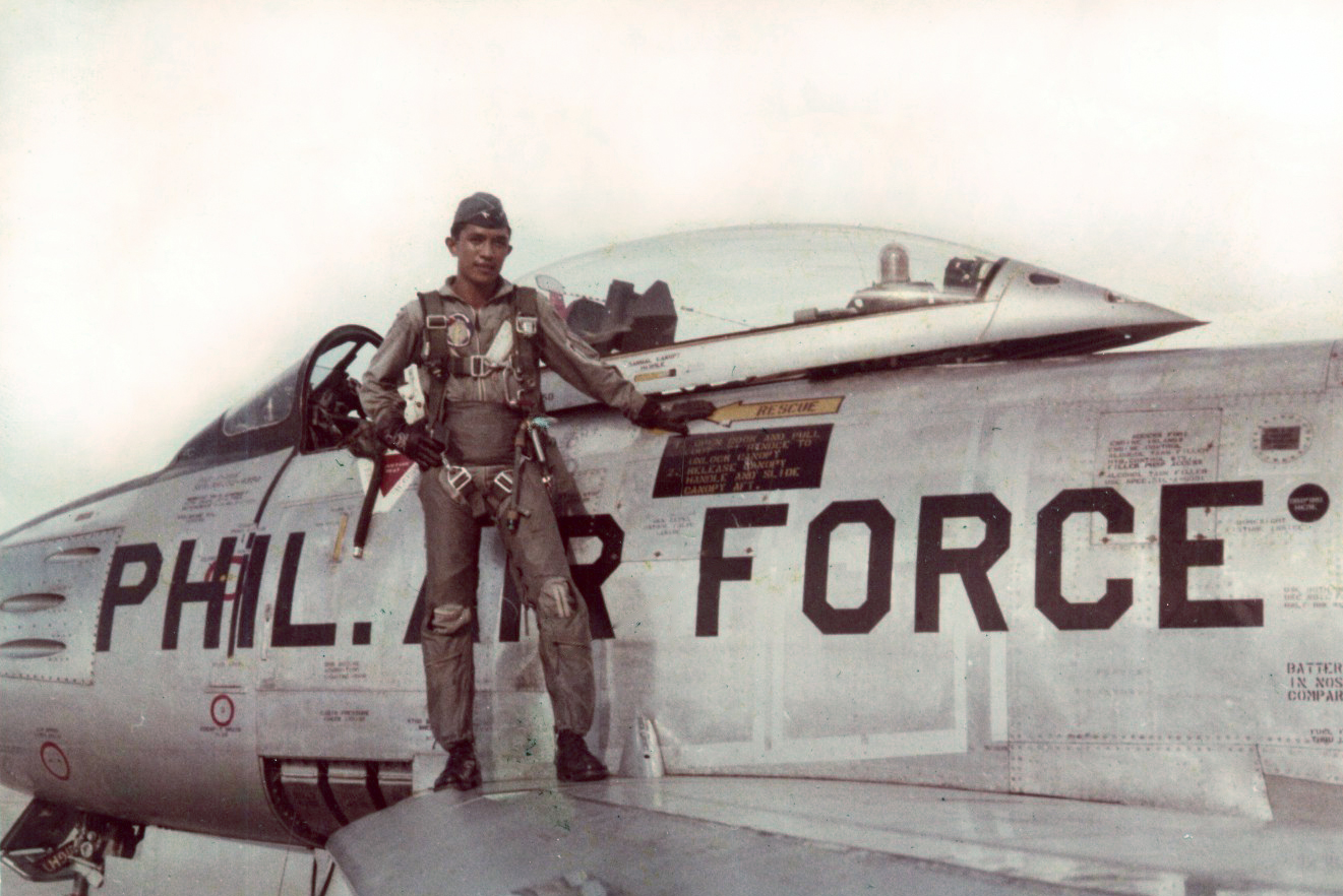 Captain Antonio Bautista, striding his F-86 Sabre Jet Fighter